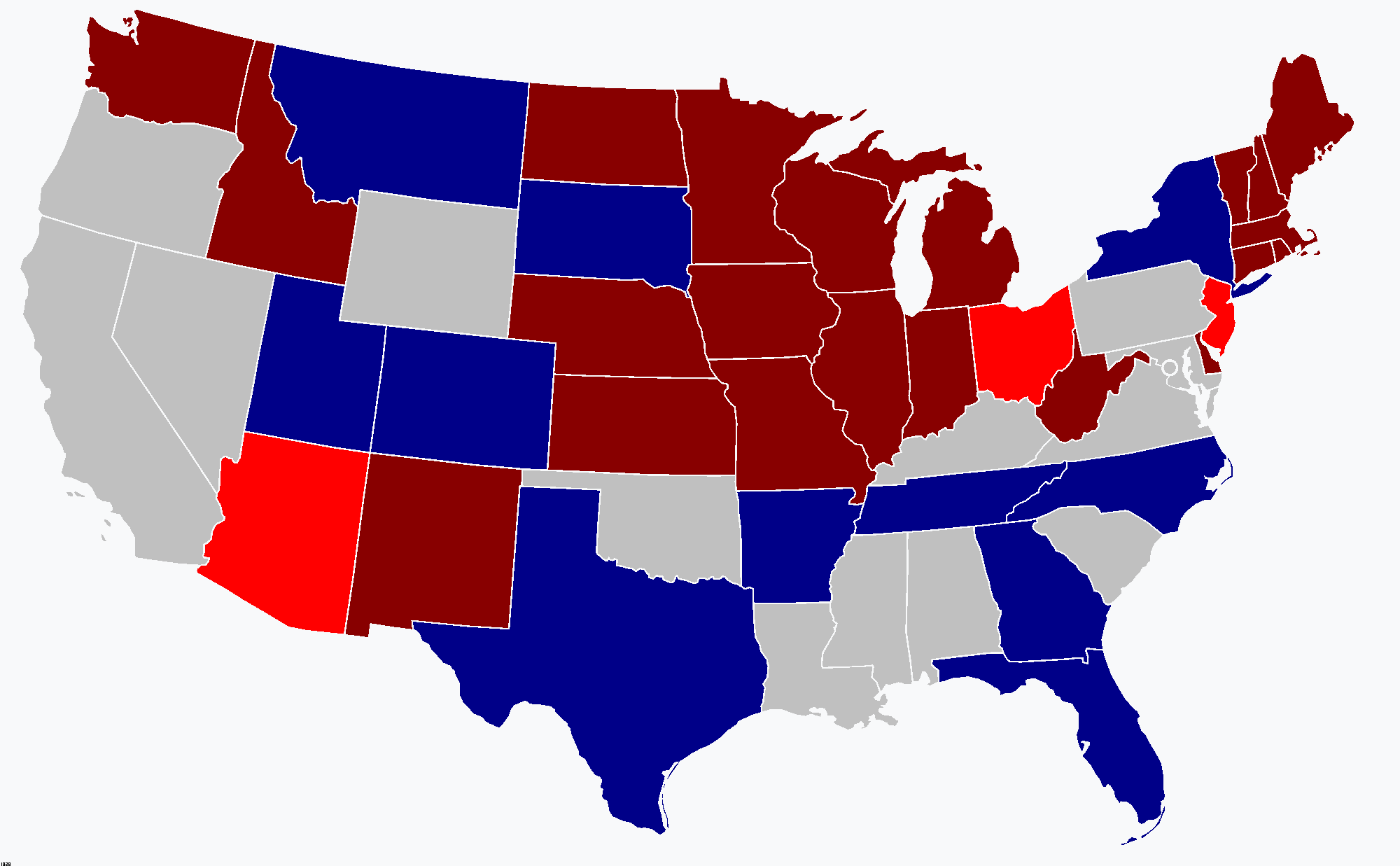 A map showing the results of the 1928 United States Gubernatorial elections